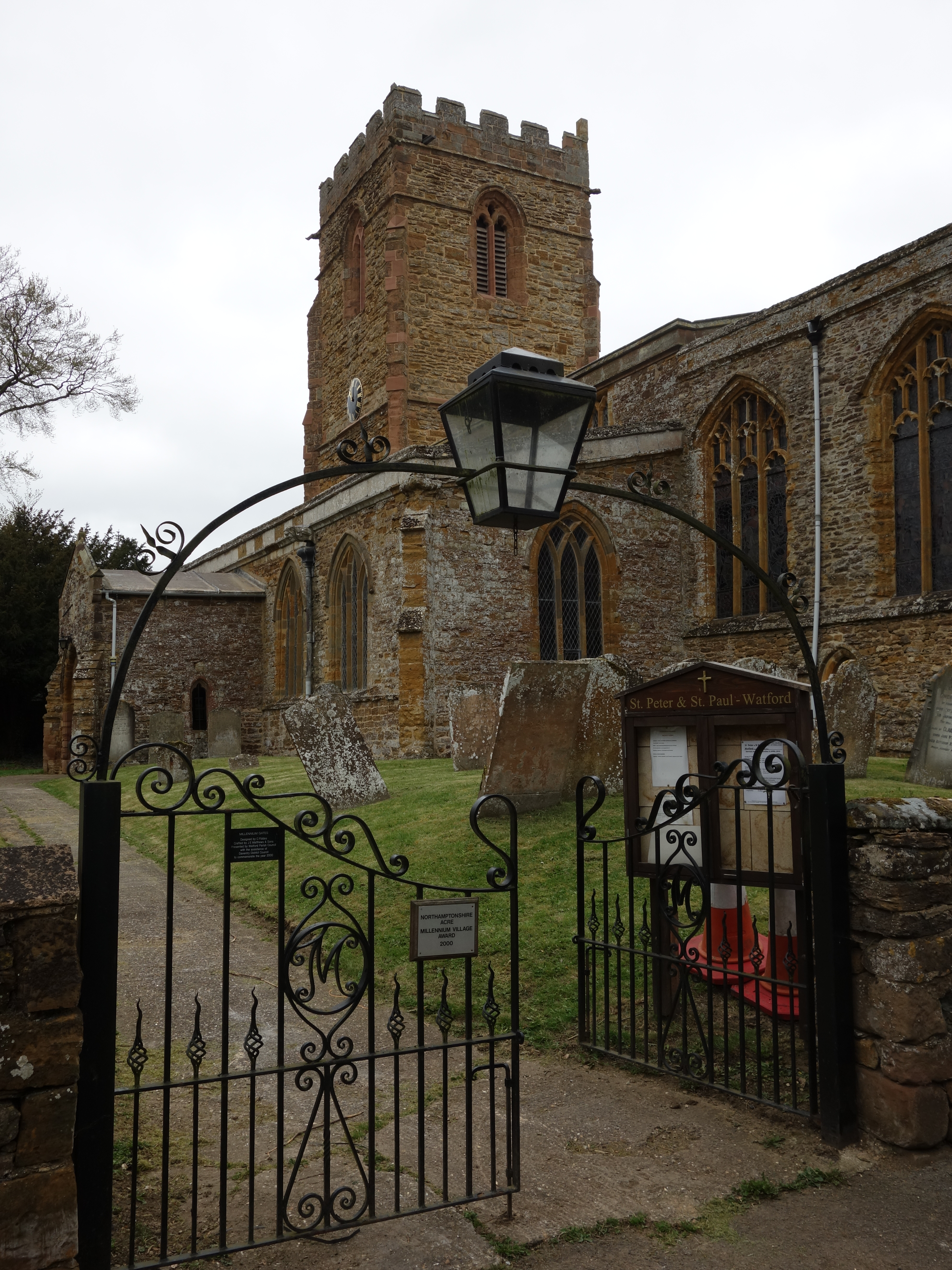 The church of St Peter and St Paul, Watford, through its entrance gateway.